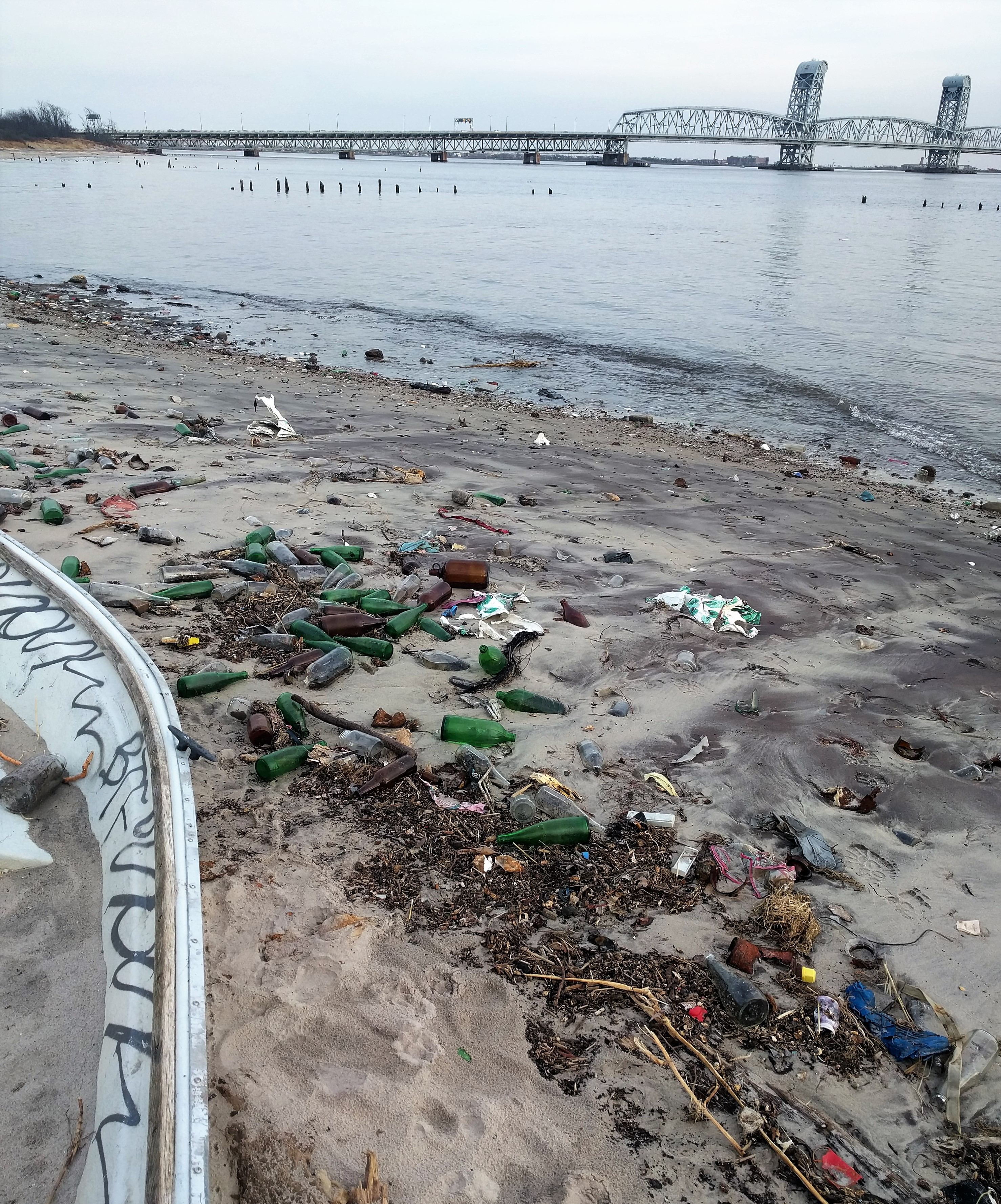 Looking north at Bottle Beach beside a wrecked boat